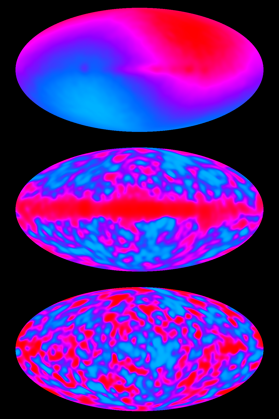 Temperature of the Cosmic Microwave Background (CMB) radiation spectrum as determined with the COBE satellite during the first two years of the Differential Microwave Radiometer (DMR) observation. The plane of the Milky Way Galaxy is horizontal across the middle of each picture. (top) uncorrected; (middle) corrected for the dipole term due to our peculiar velocity; (bottom) further corrected to remove the contribution of our galaxy. Note: This map is based on data collected over the two first years of the four-year COBE mission. Therefore, it has been superseded by the four-year map.